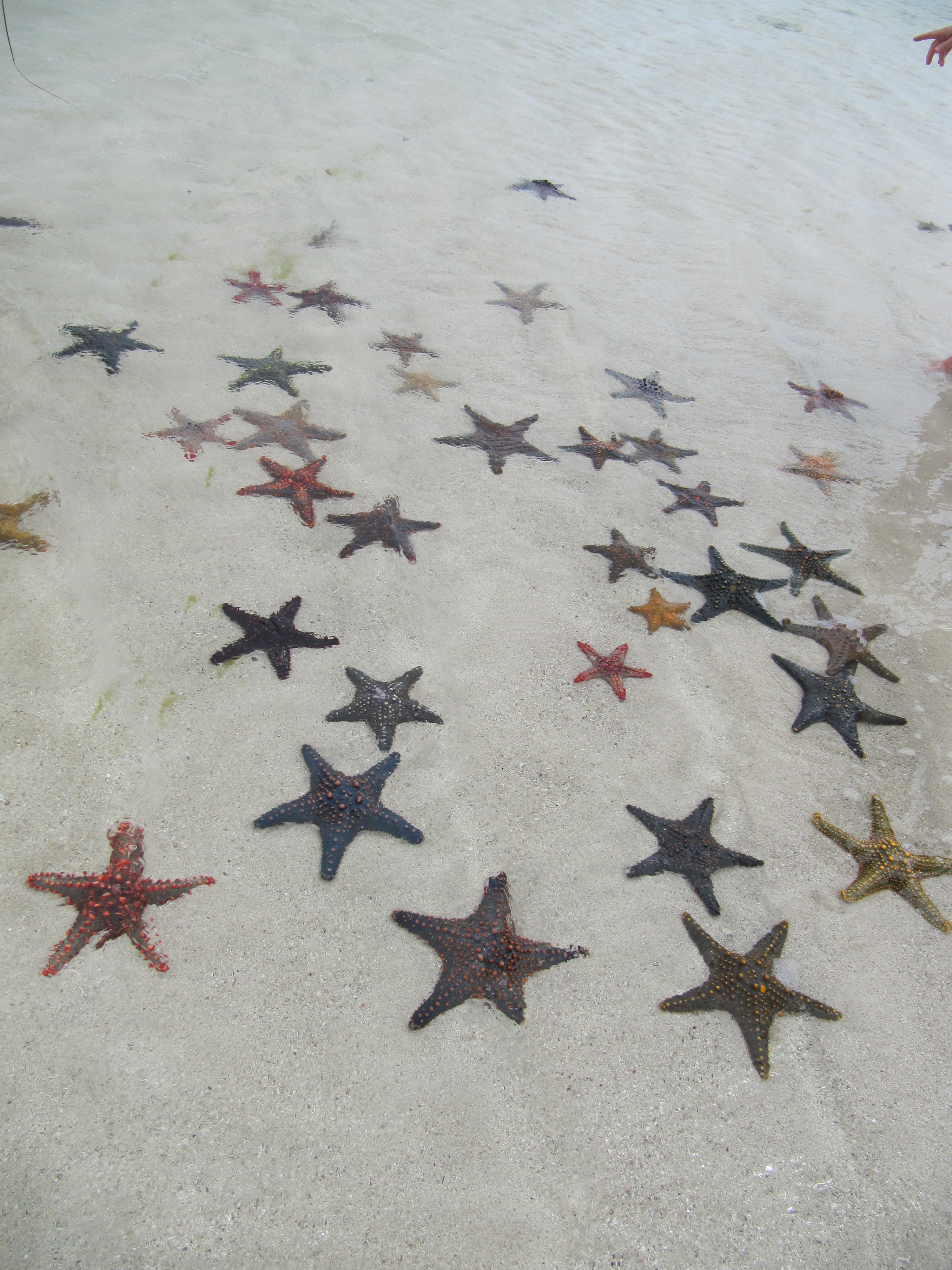 Starfishes in the Indian Ocean, near Mombasa, Kenya